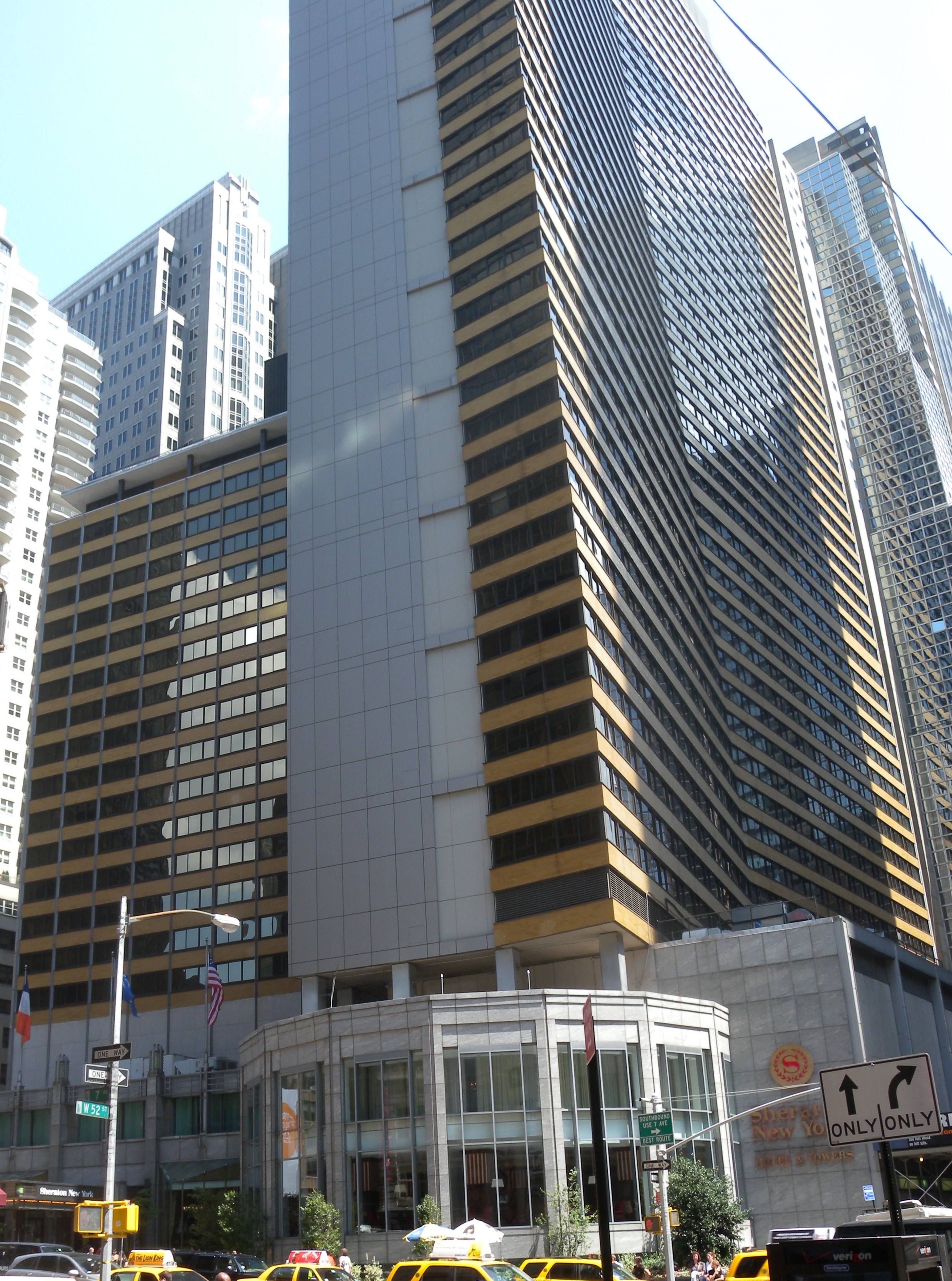 Looking east across 7th avenue at Sheraton Hotel & Tower at midday.